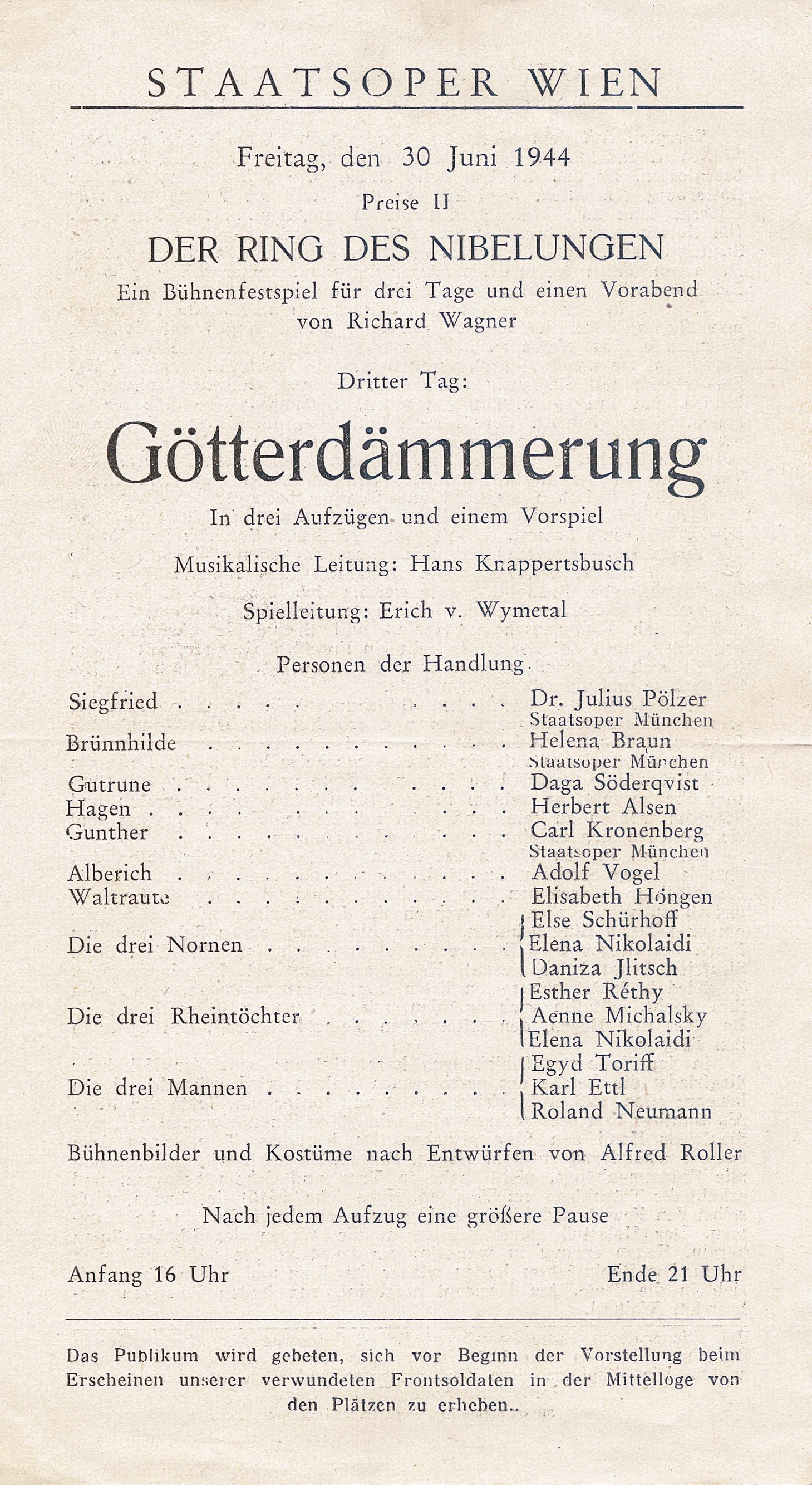 cast of the last performance in the old building of the Vienna State Opera before bombing during World War II; insert of the playbill